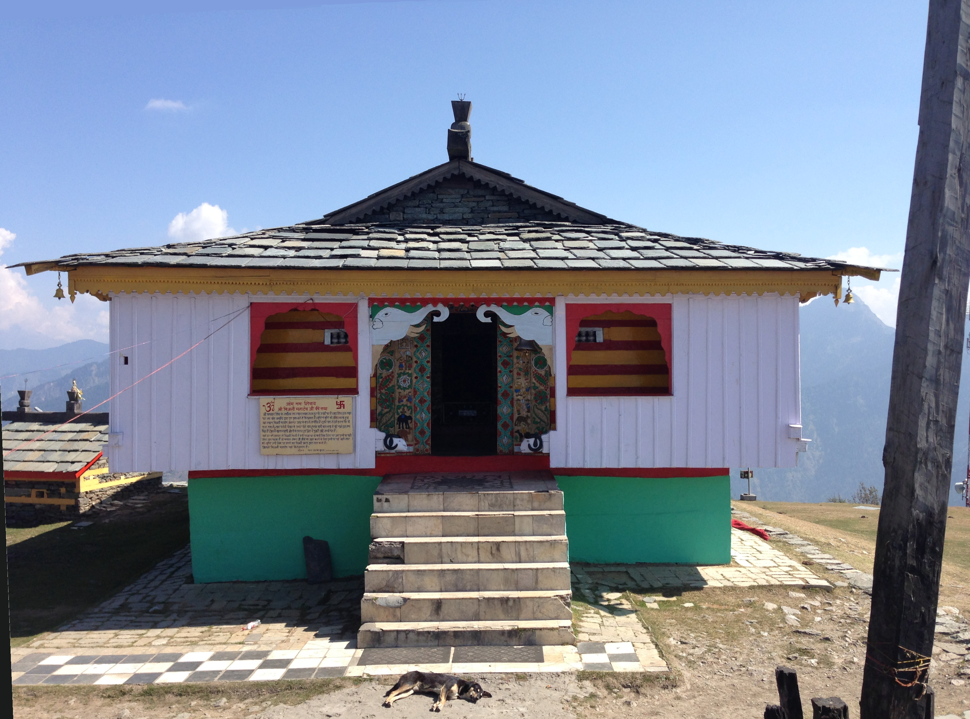 Traditional Himalayan architecture.